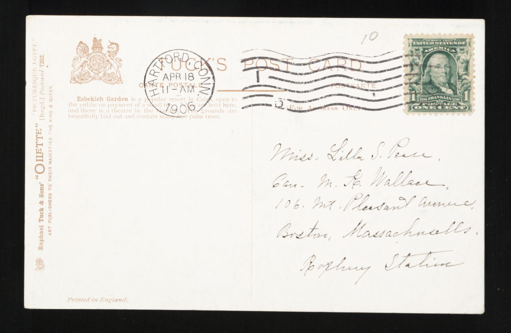 Man watering a lush, green garden